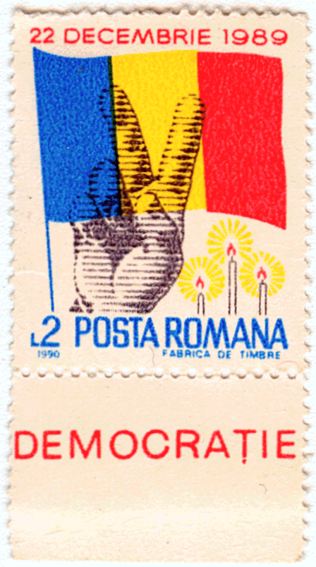 Romanian Revolution of 1989